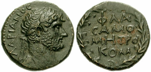 Samosata, Hadrian, 117-138 AD. Æ 18mm (4.22 g). Laureate head right / ΦΛA/ΣAMO(ΣΑΤΩΝ)/MHTPO/KOM in four lines within wreath.